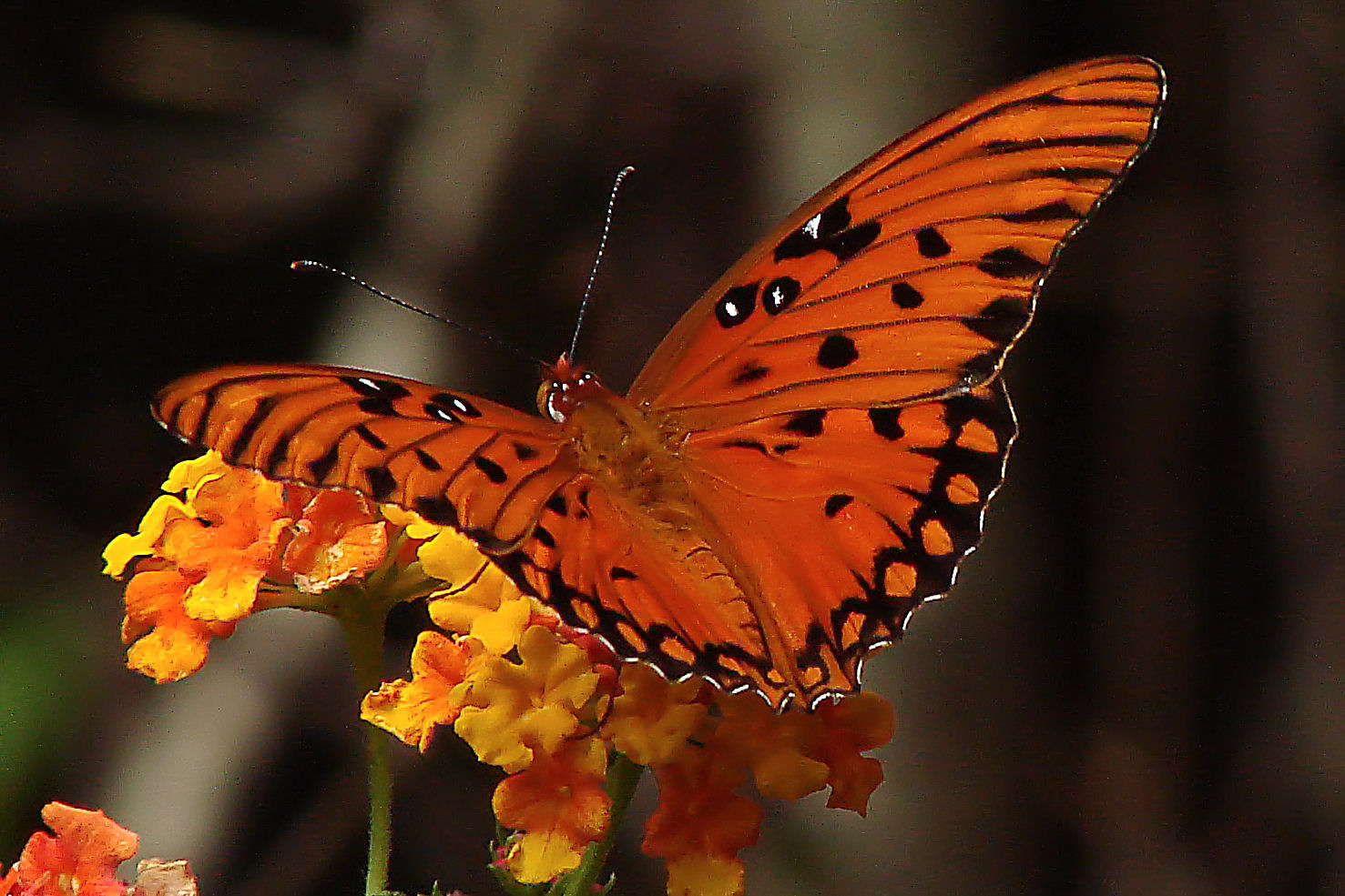 Enjoying Latana